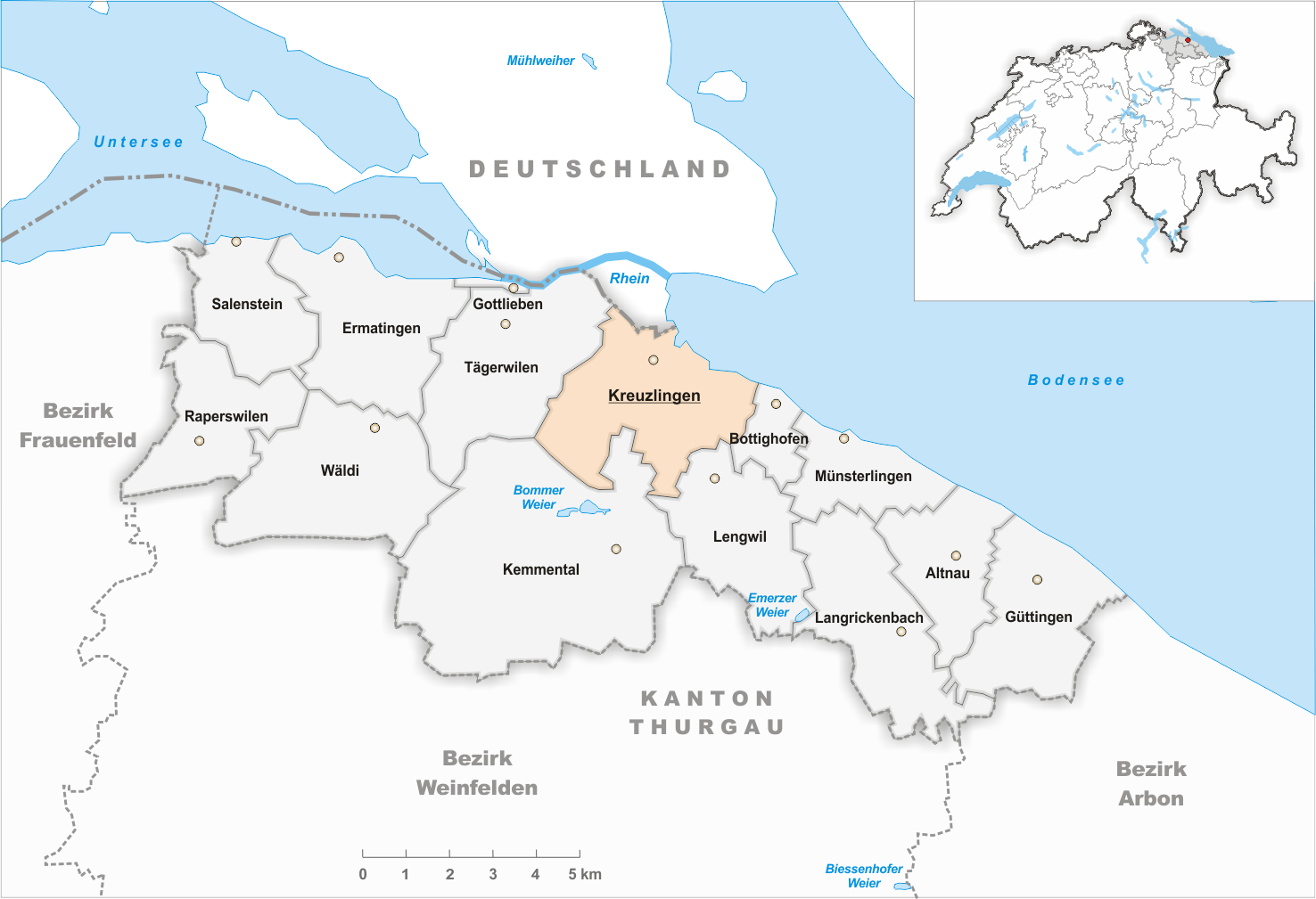 Municipality Kreuzlingen